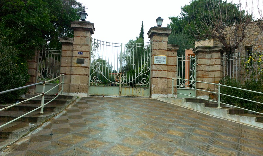 girokomeio